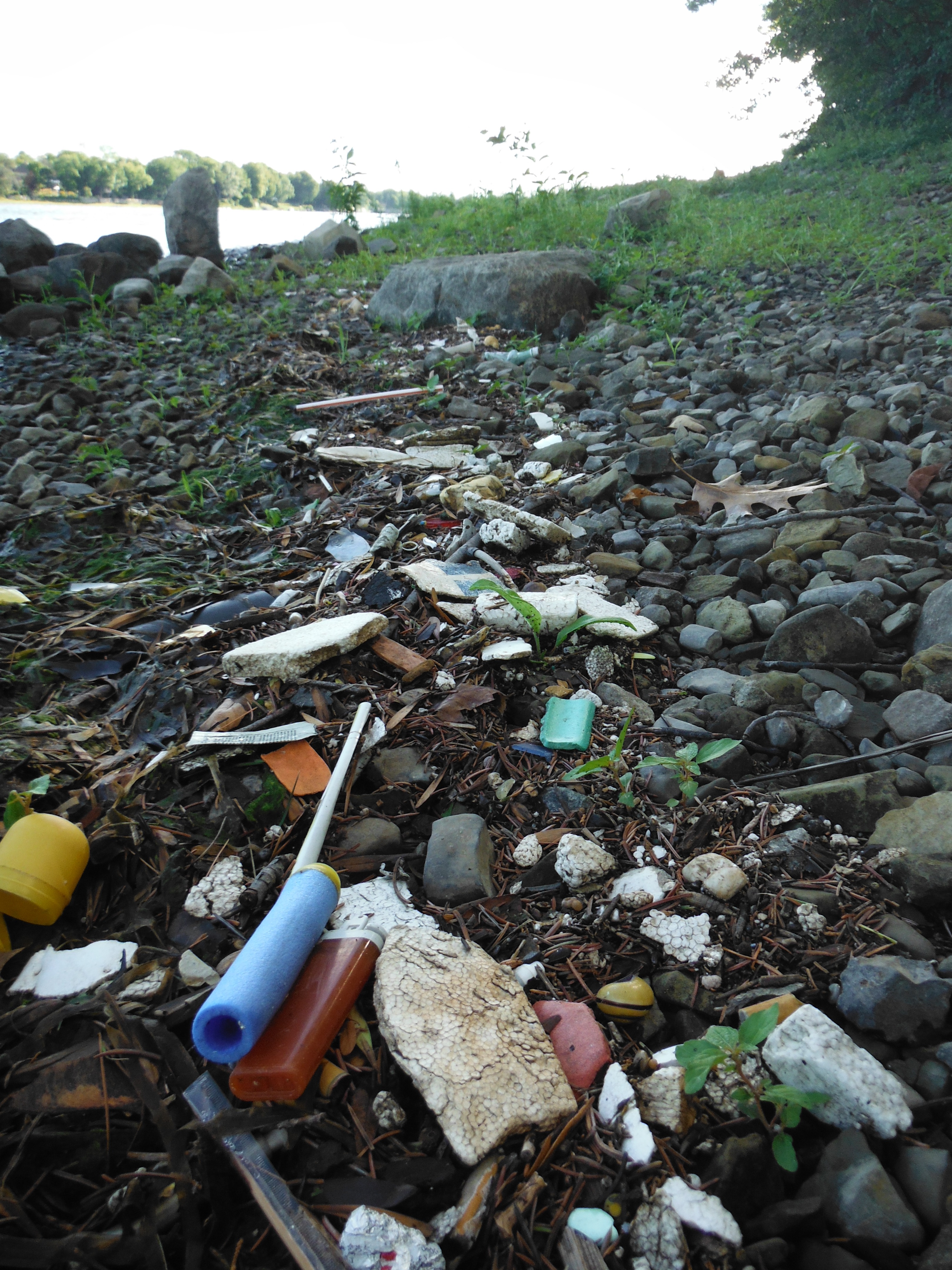 I took a photo of the plastic debris that comes out of the Rivière des Prairies and collects on the shoreline of rapides du Cheval Blanc ( on the island of Montreal in the burrow of Pierrefonds-Roxboro).